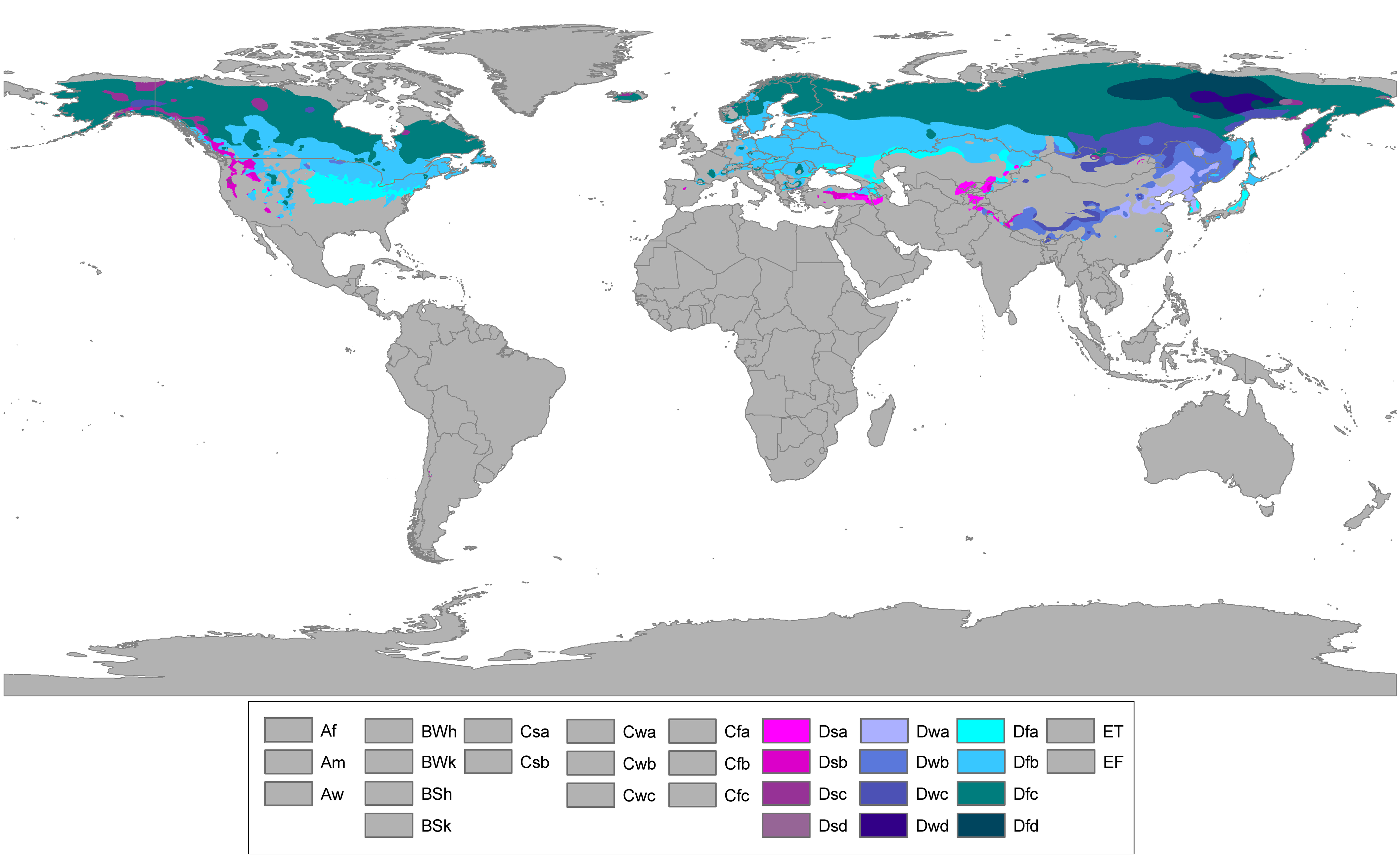 Updated world map of the Köppen-Geiger climate classification. GROUP D: Continental/microthermal climate